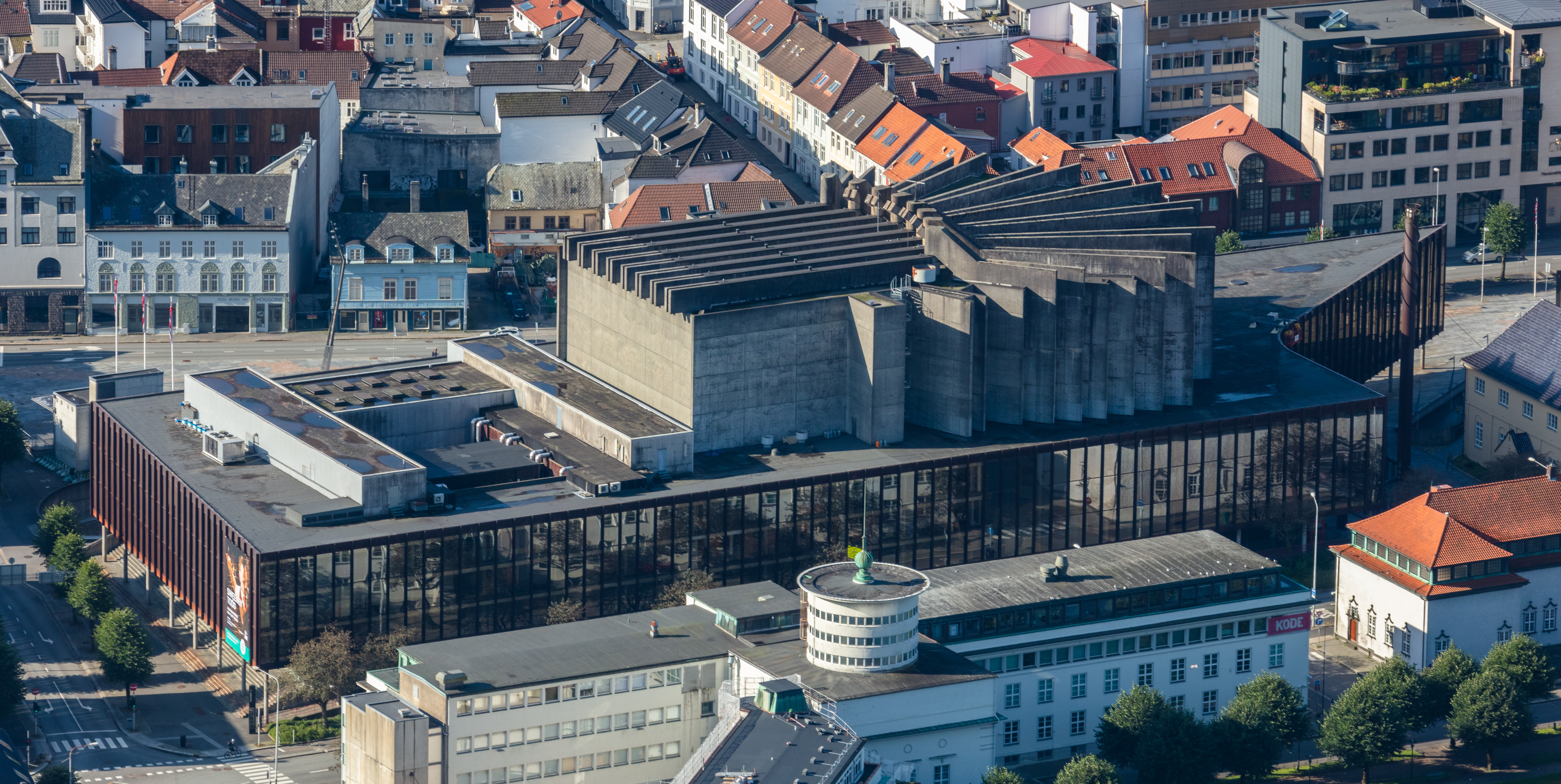 View of Grieghallen from Mount Fløyen, Bergen, Norway